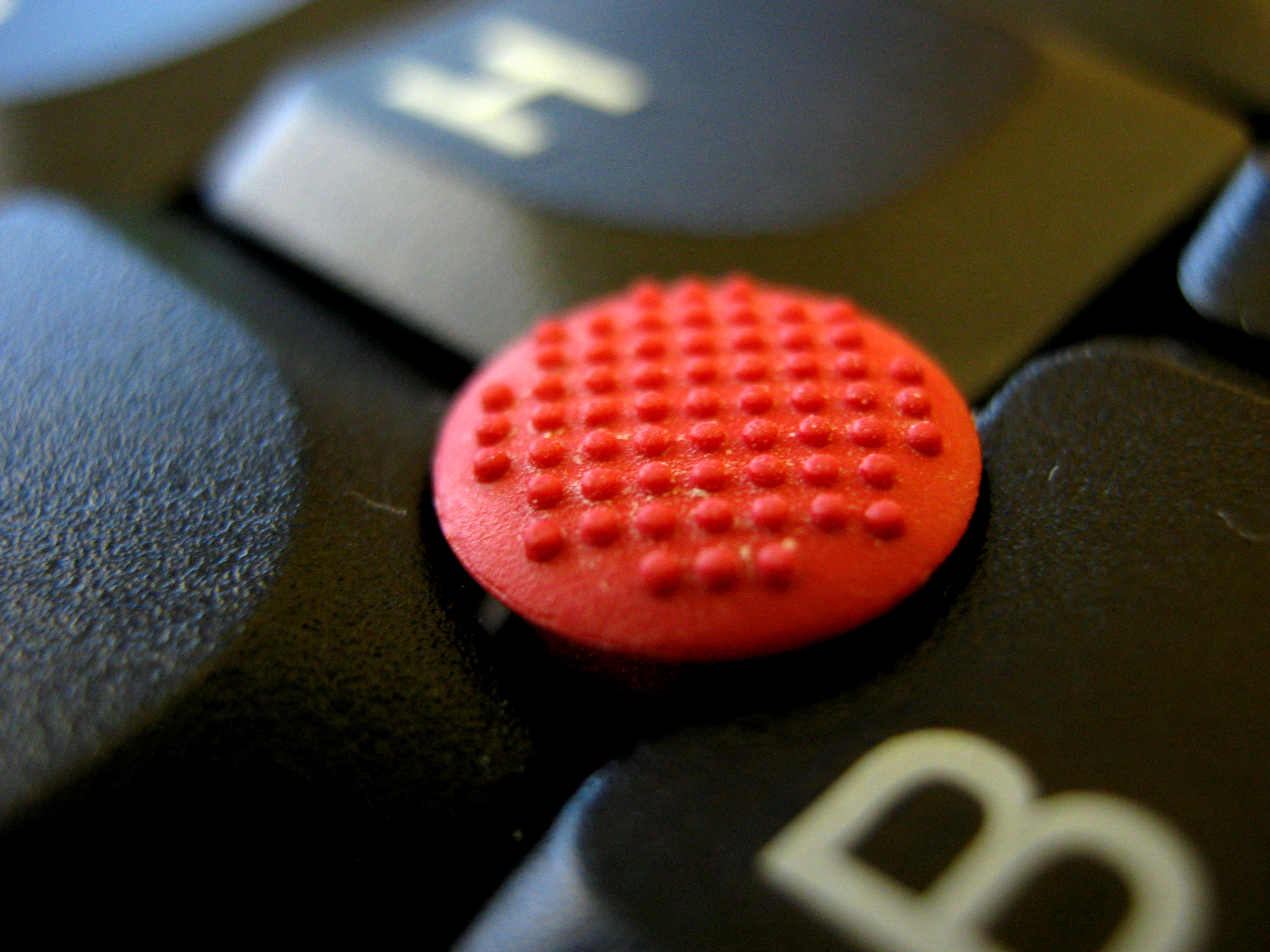 A pointing stick from a Lenovo T400 Laptop keyboard.